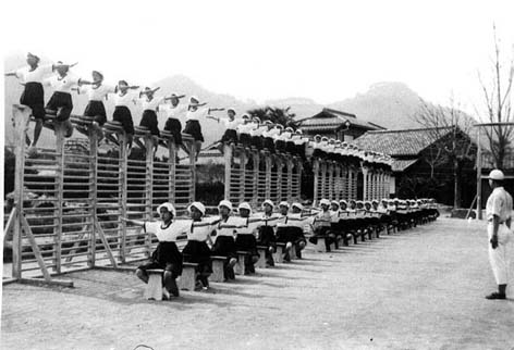 肋木体操(Wall bars and Japanese girls before 1941: from website of Hagi city Japan)